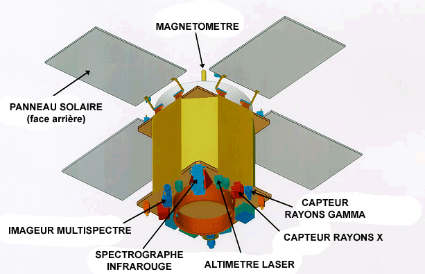 Diagram showing location of NEAR science instruments.(french labels)